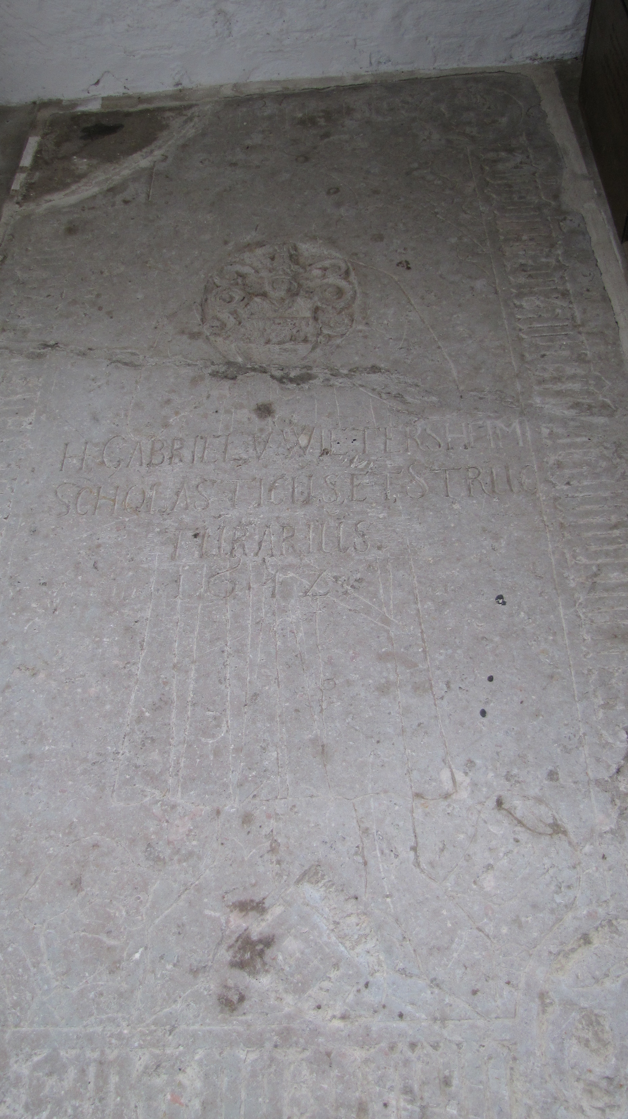 Grave stone of Canon Gabriel von Wietersheim in Lübeck cathedral